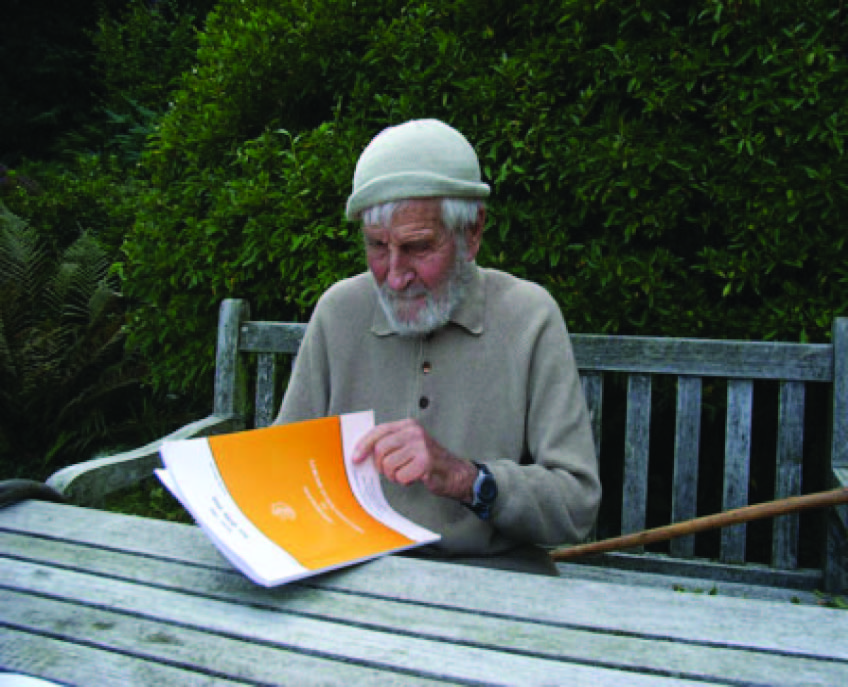 Picture of Dr. Augusto Gansser. Sept 2007